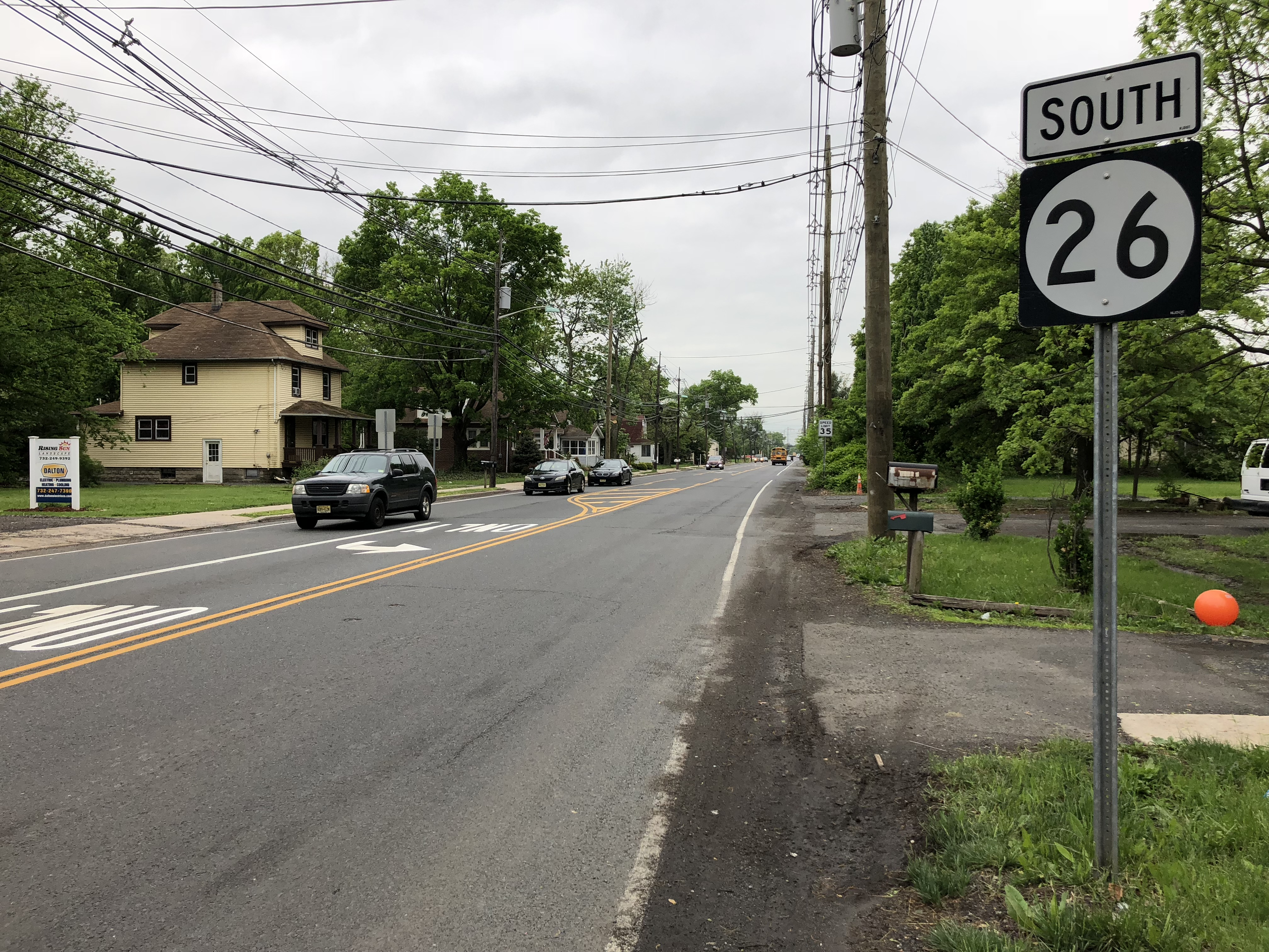 View south along New Jersey State Route 26 (Livingston Avenue) at How Lane (Middlesex County Route 680) in North Brunswick Township, Middlesex County, New Jersey